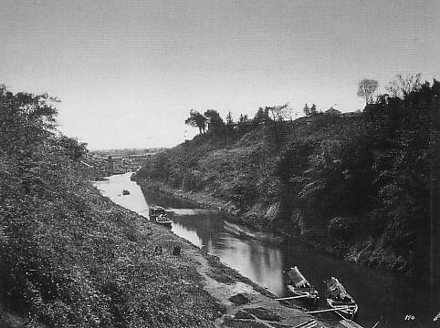 Ochanomizu in the Meiji era